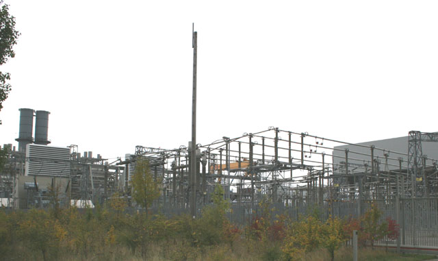 Coryton Energy Company Ltd